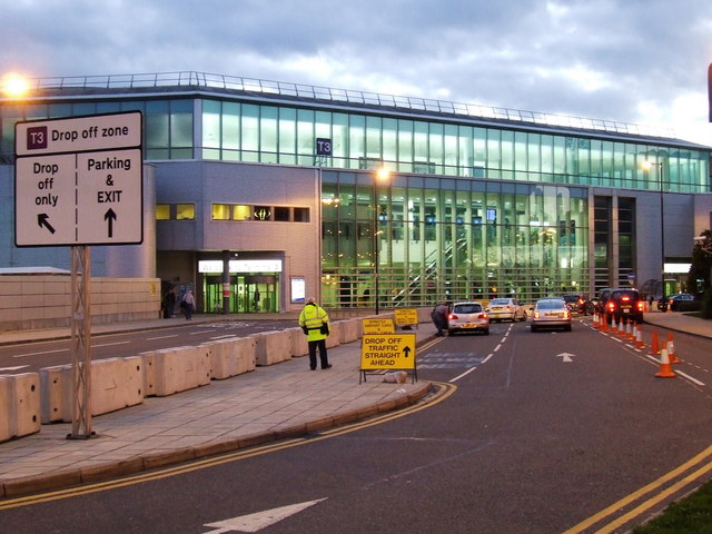 Dusk at Terminal 3. As with all major British airports since the Glasgow Airport terrorist attack in June 2007 485211, none too pretty concrete blocks protect the terminal building from access by vehicles.